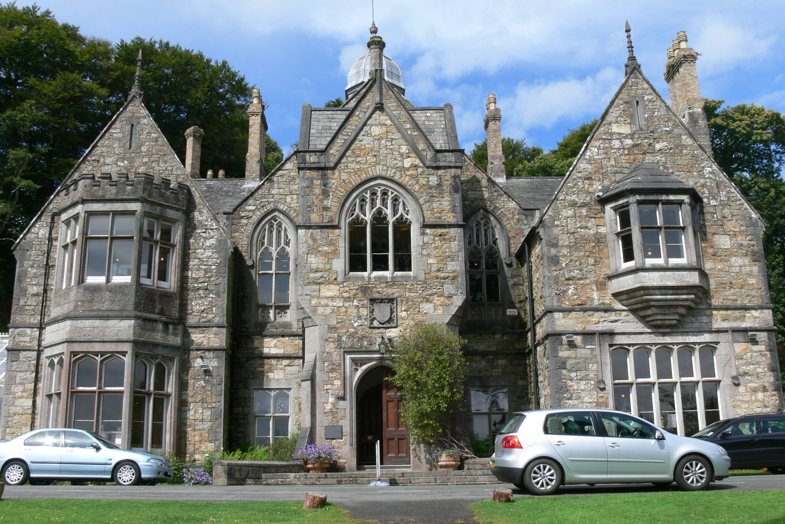 Llanbedrog ( Wales ). Plas Glyn y Weddw: Exterior.